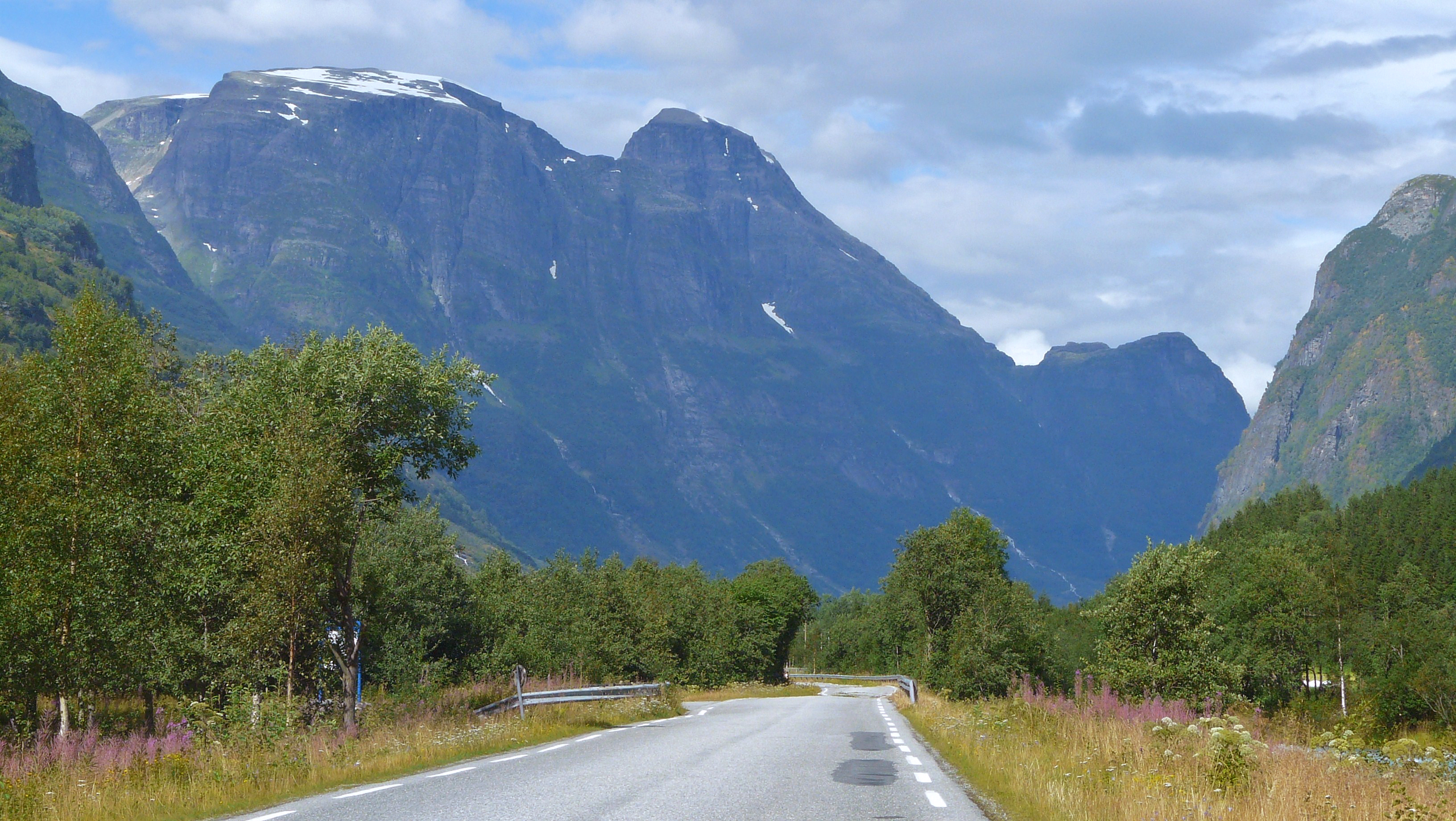 A view to Oldedalen as seen from Fylkesvei 724 heading north from Briksdalsbre Fjellstove in 2008 August.